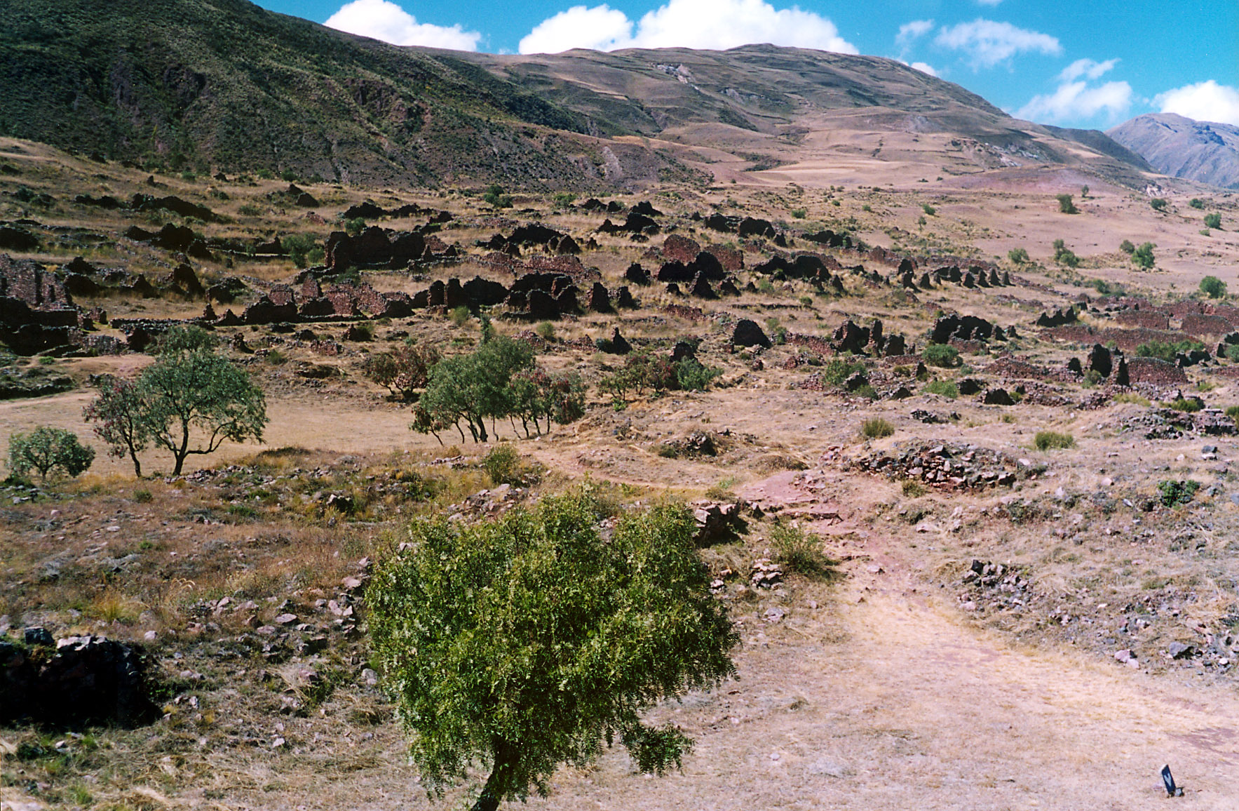 Piquillacta, 30 km SE from Cusco, Peru. The photo was taken by Håkan Svensson (Xauxa) in June 2002.